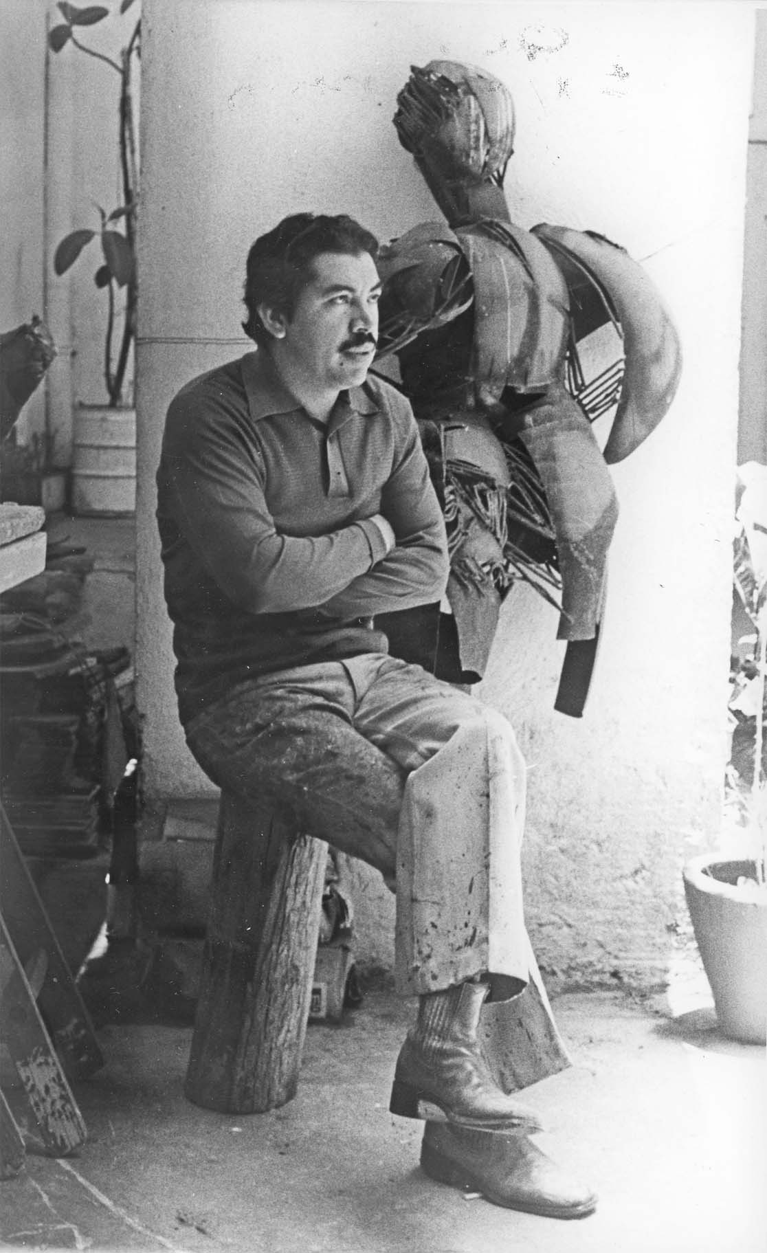 Guillermo Ceniceros sitting